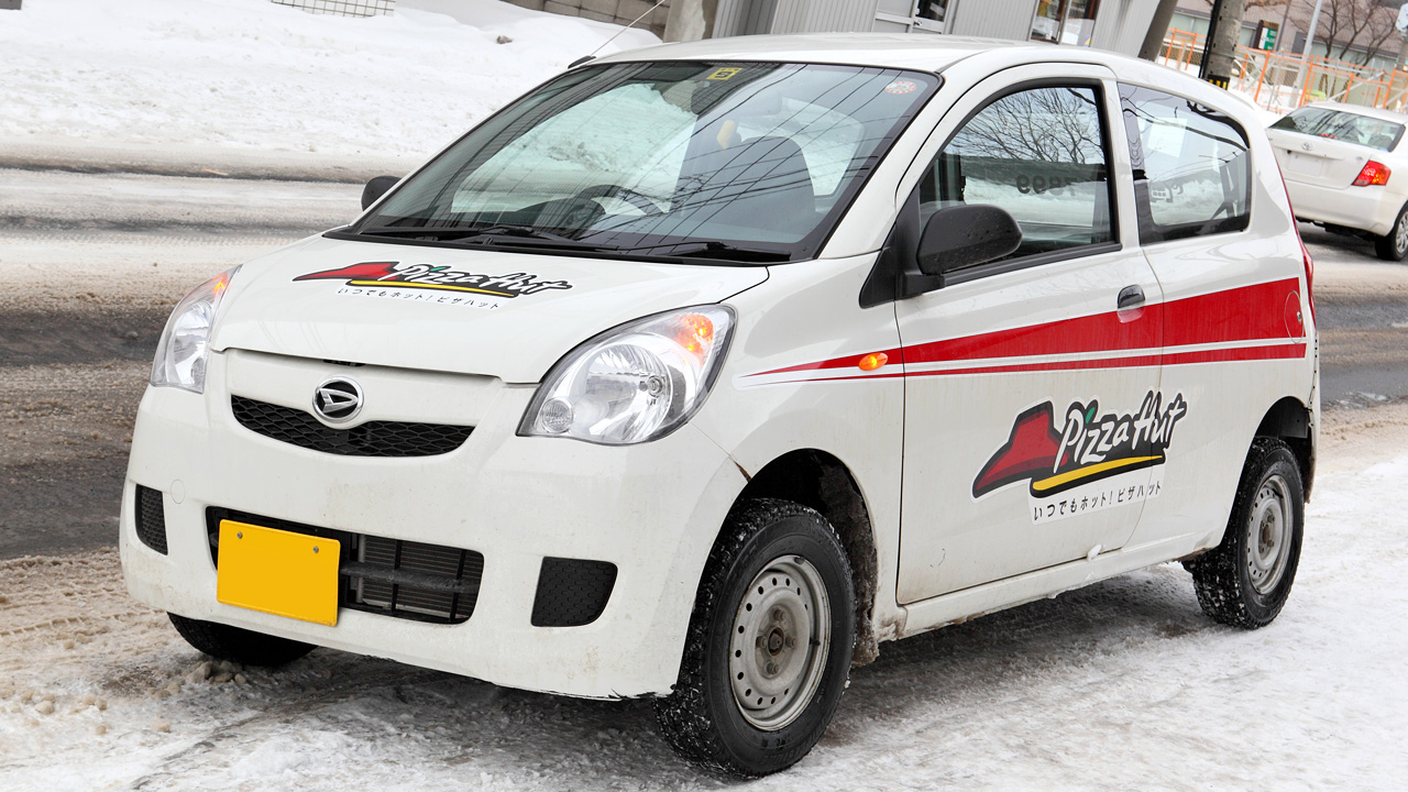 7th generation Daihatsu Mira (Pizza Hut's delivery car in Sapporo)